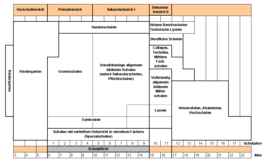 educational system of the Russian Federation as given in 2005. German language Produced with MS Excel, excel sheet for translations available at author. Sources for the information collected in the chart: DelegatioTHIES NABERT&RFRRn der Deutschen Wirtschaft in der Russischen Förderation, Deutsches Institut für Internationale Pädagogische Forschung.